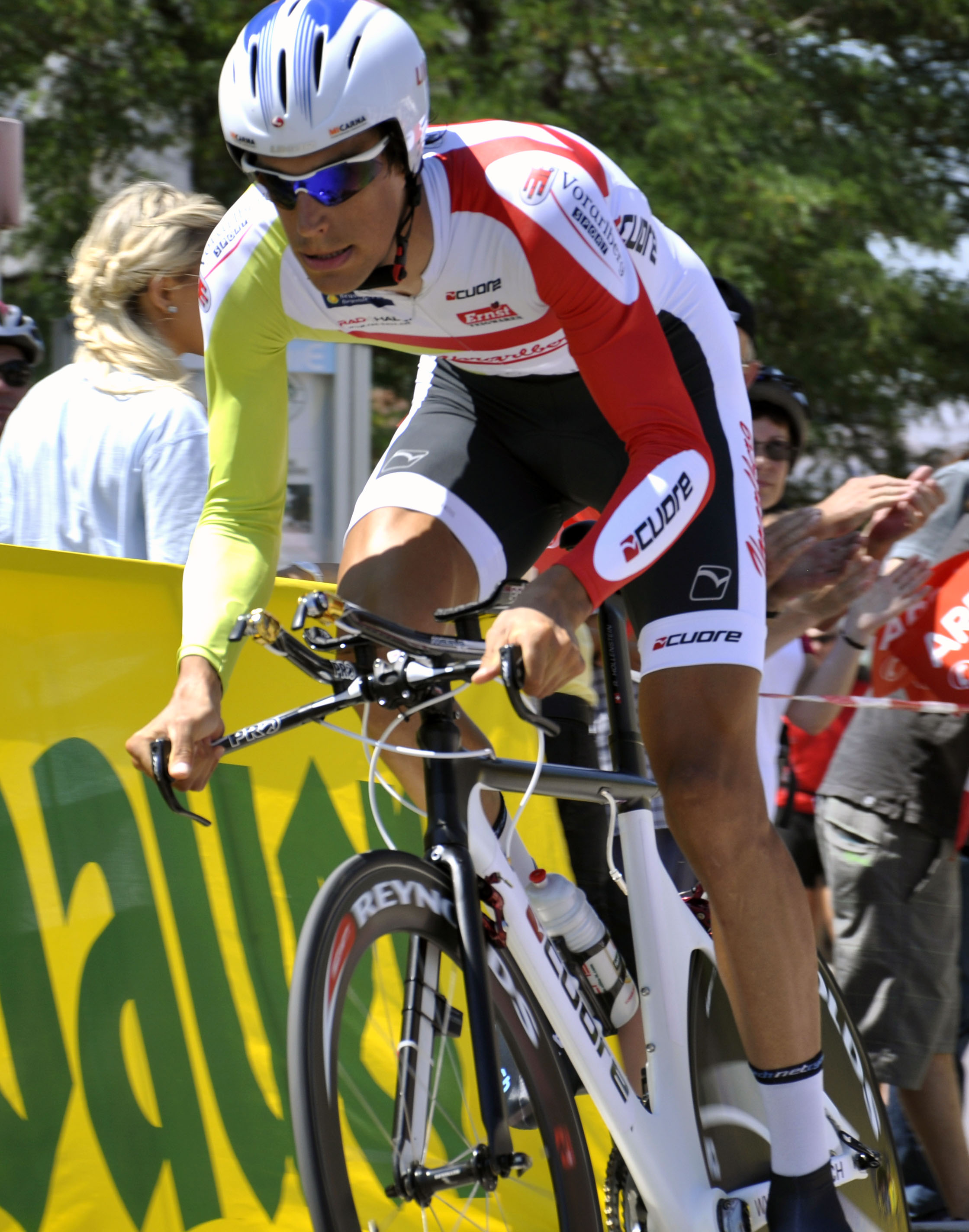 Swiss pro cyclist Reto Hollenstein during the individual time trial at the Tour of Austria 2011